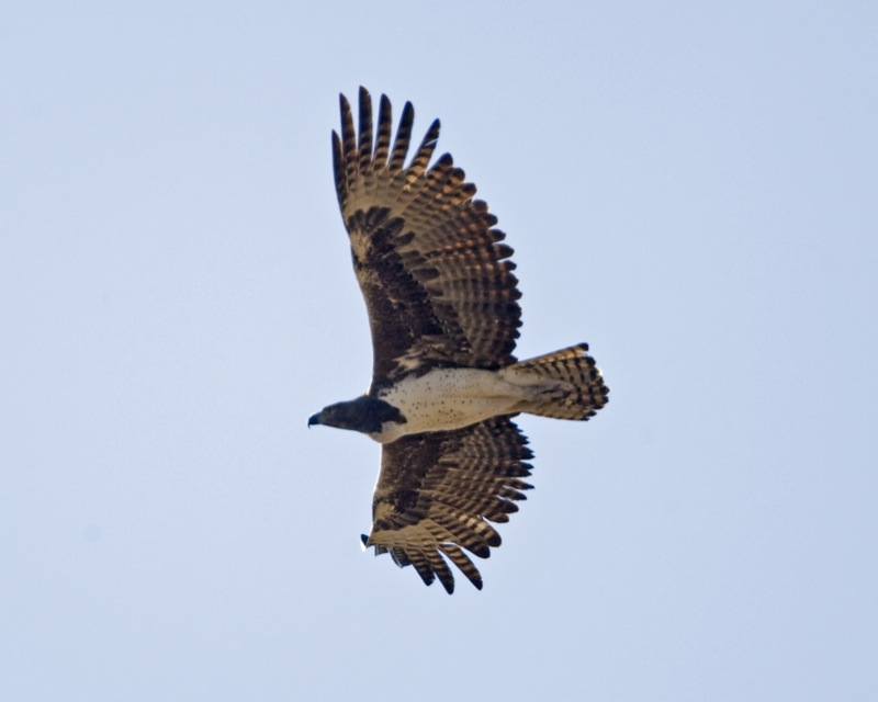 Martial Eagle Female initially seen at nest before it too to the skies.. The male was seen at a waterhole nearby. it was significantly smaller. Polemaetus bellicosus Location: Moremi, Botswana Distribution: 690V1895.jpg